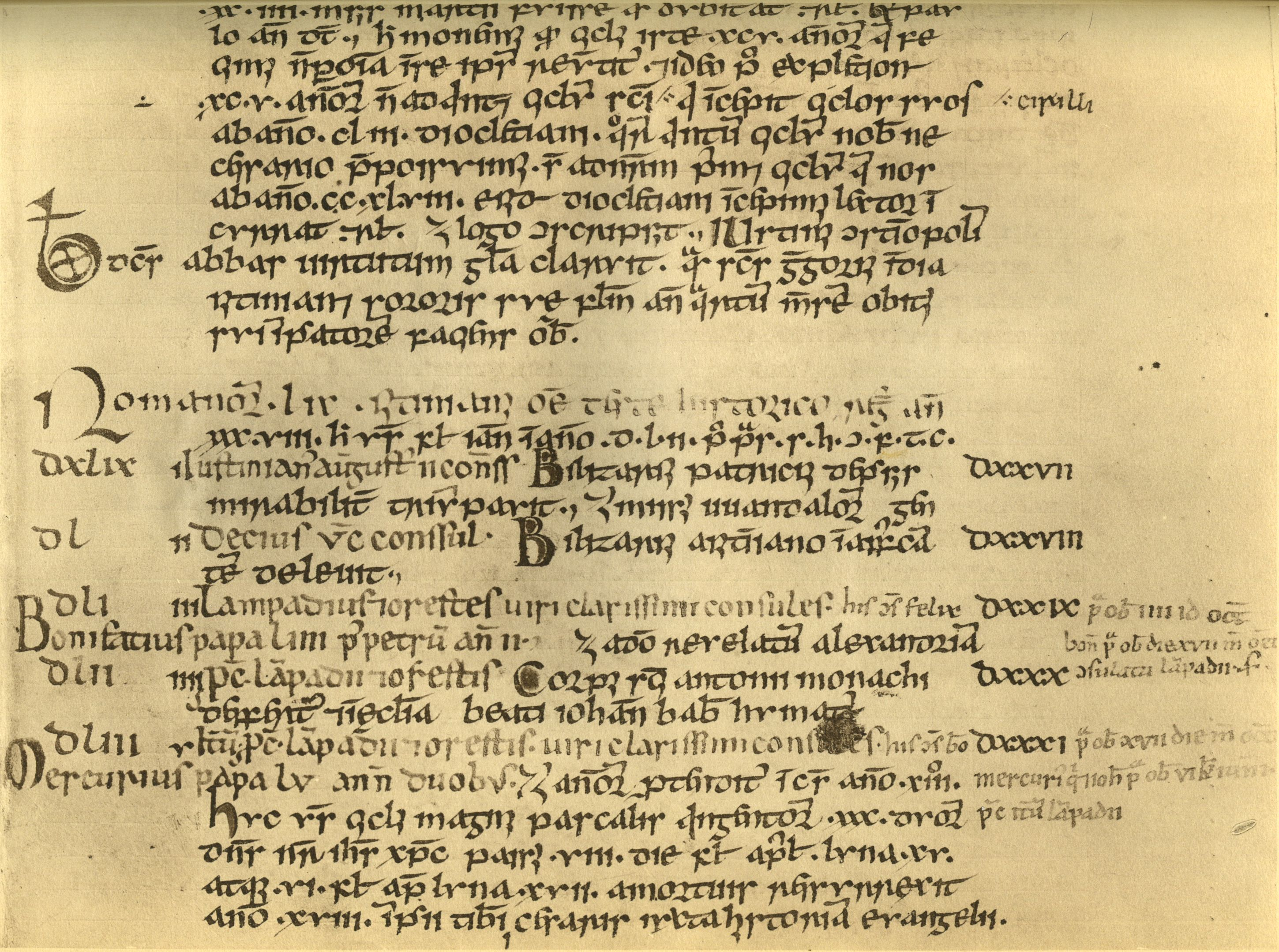 Marianus Scot(t)us, Chronicle, in ms. Biblioteca Apostolica Vaticana, Vaticanus Palatinus latinus 830, fol. 148r.